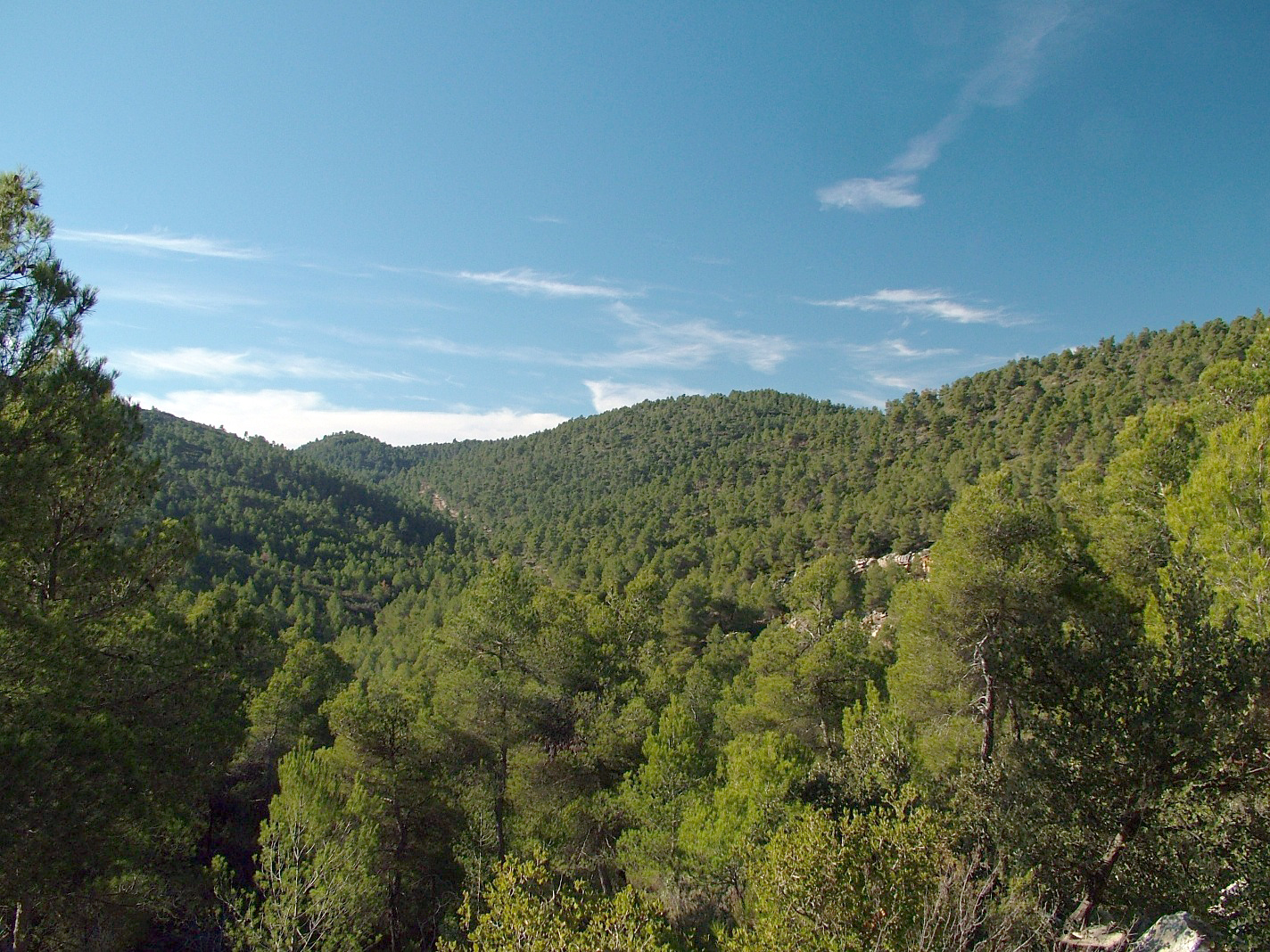 Forest of Pinus halepensis in Sierra de Burete (Cehegín, Murcia, Spain).